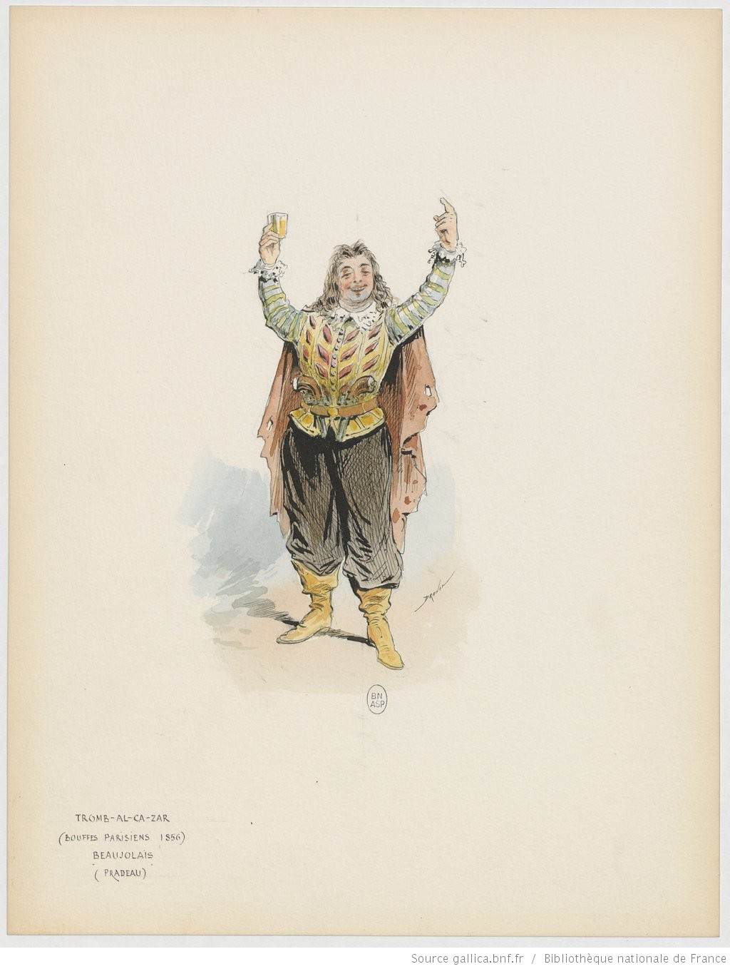 Étienne Pradeau as Beaujolais in Jacques Offenbach's Tromb-al-ca-zar, drawing by Draner